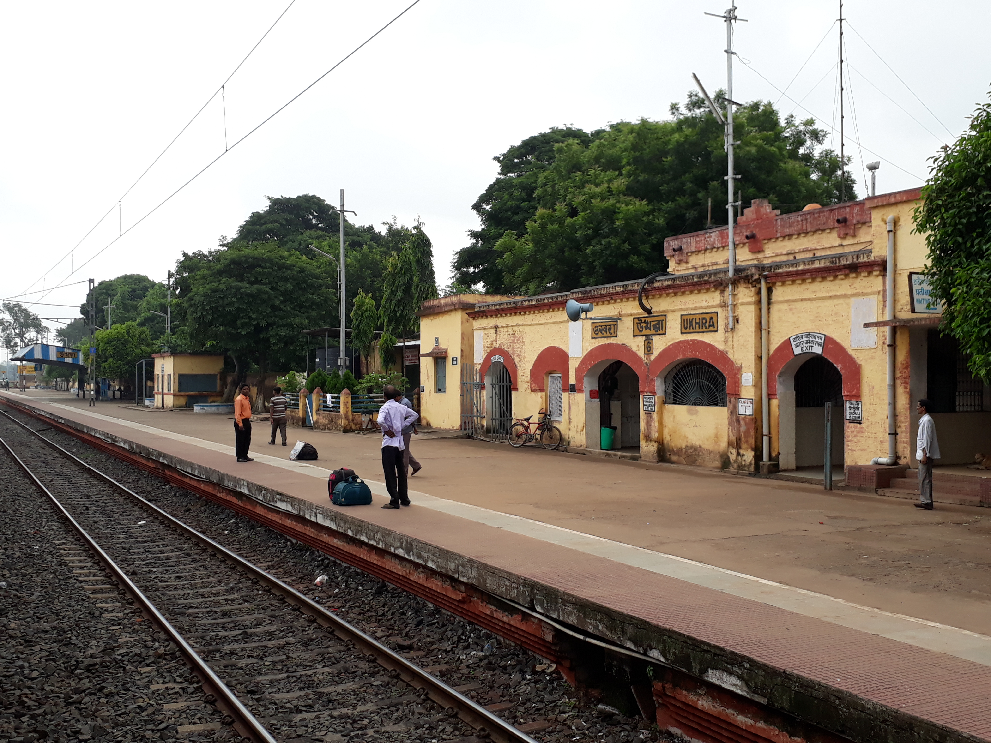 Railway Stations of West Bengal in Sainthia to Andal line.